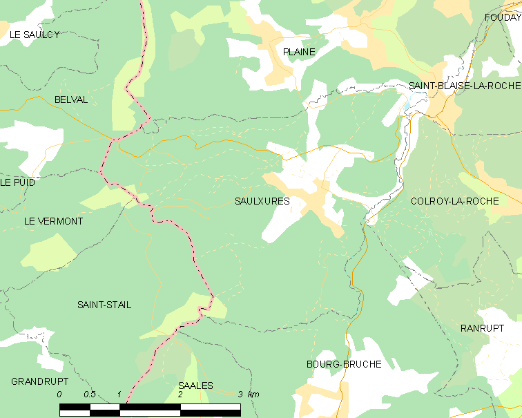 Map of French municipality